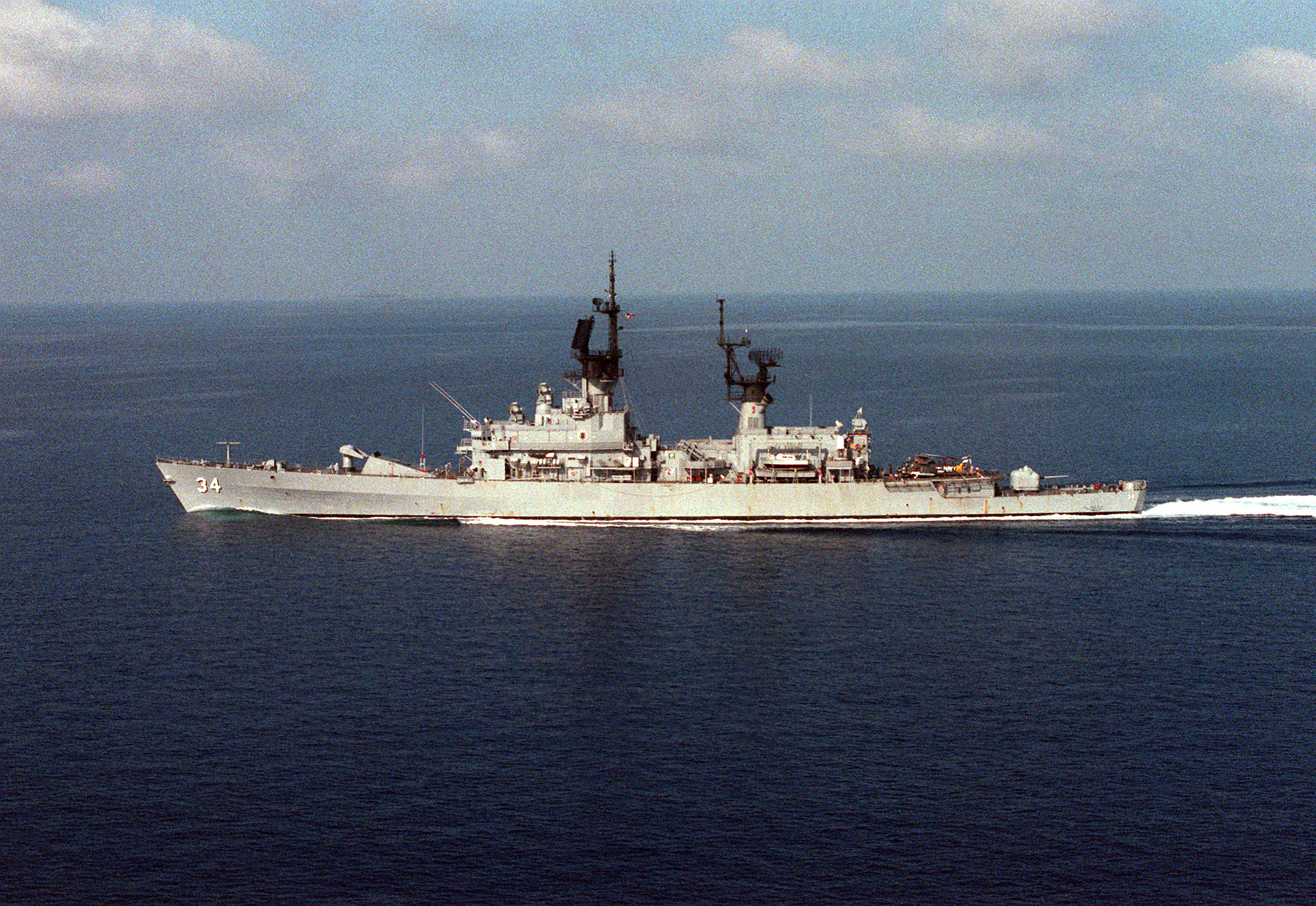 A port beam view of the guided missile cruiser USS BIDDLE (CG-34) underway during Operation Desert Shield.